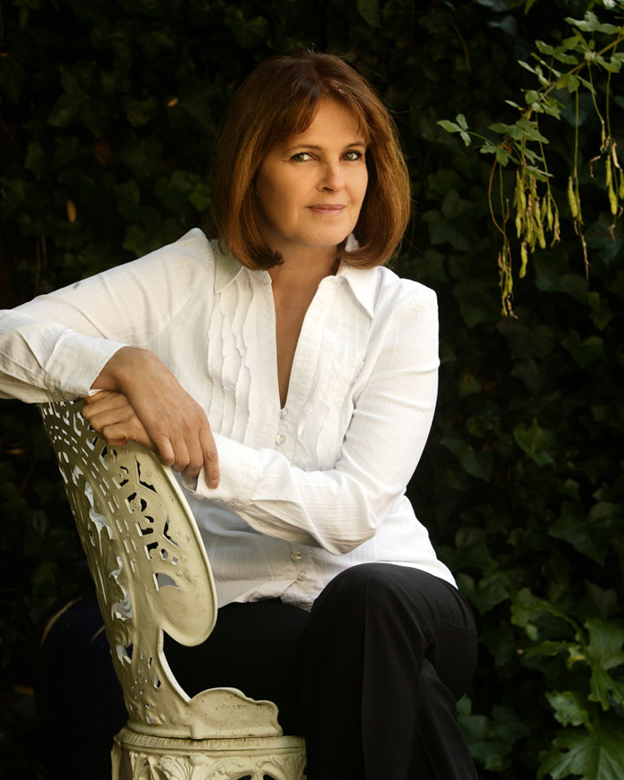 Portrait